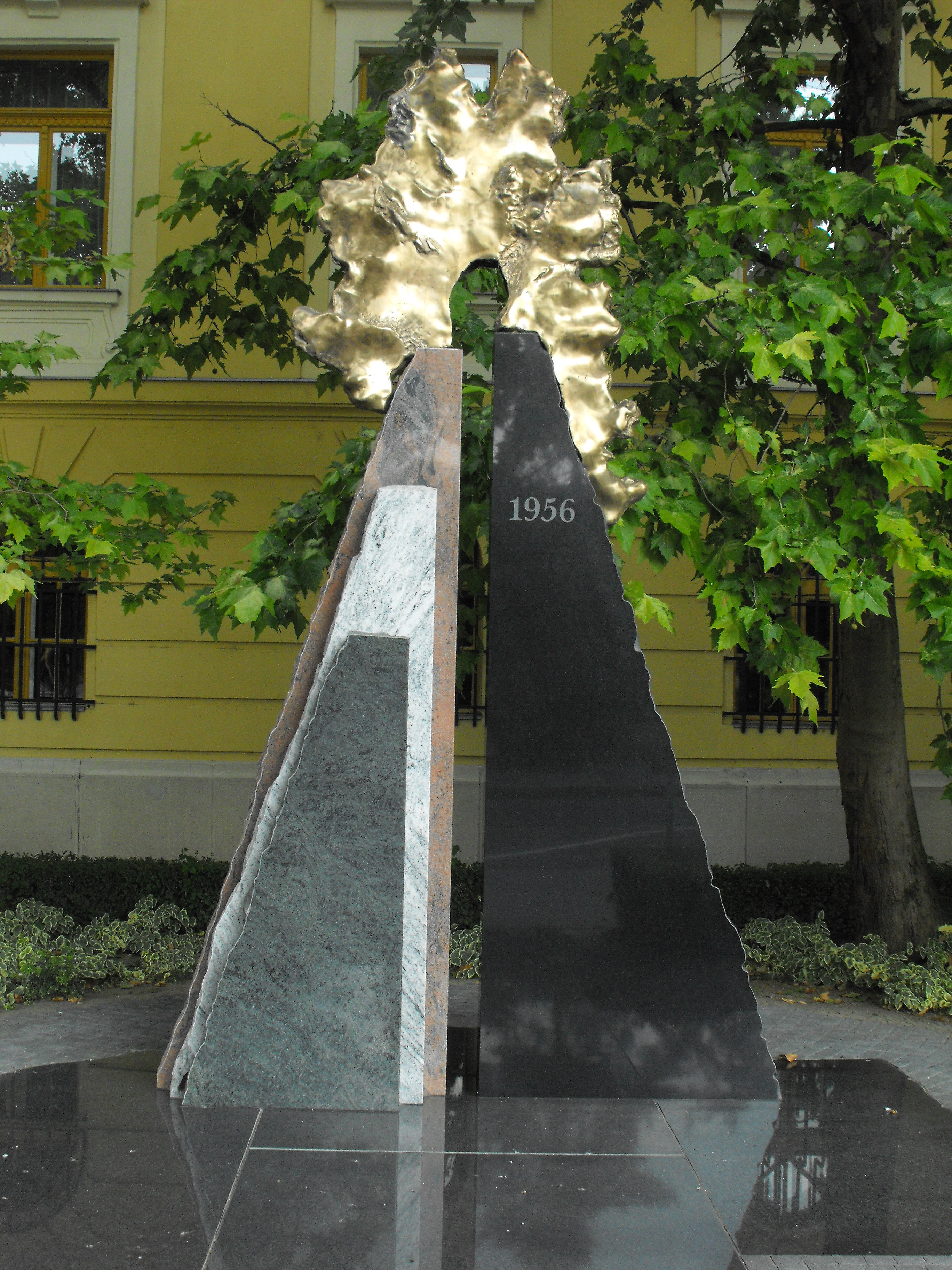 Monument in Mezőtúr, Hungary, commemorating to the Hungarian Revolution of 1956.